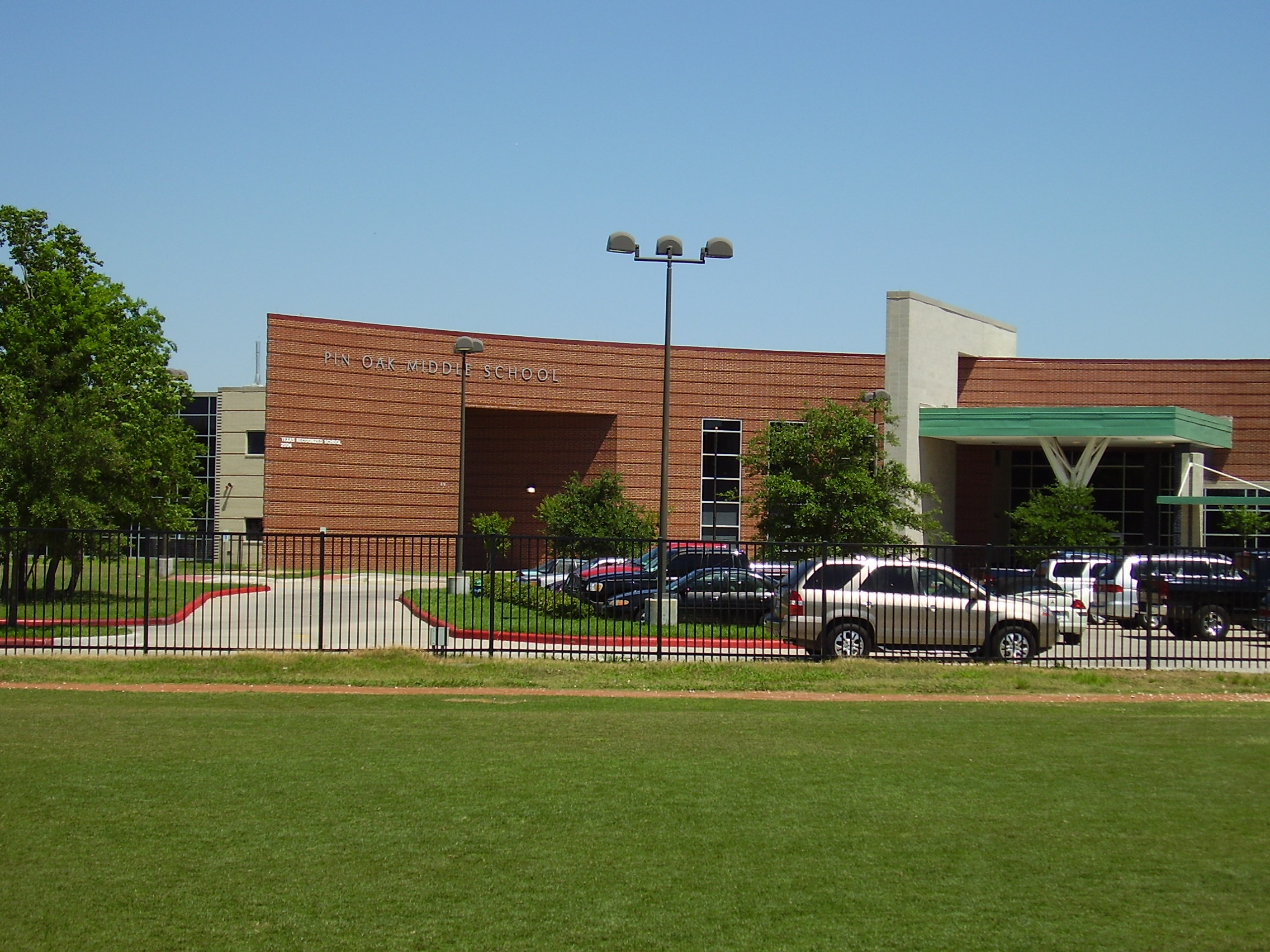 Pin Oak Middle School